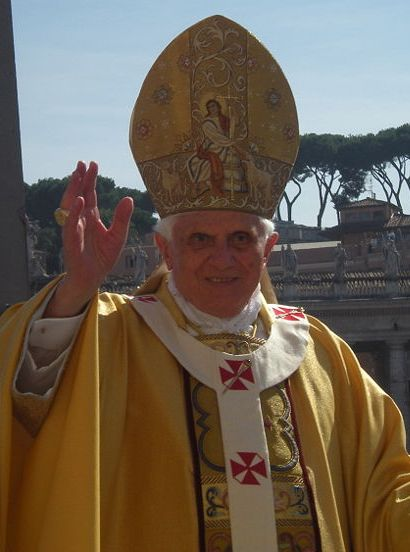 Pope Benedict XVI performing a blessing during the canonization mass in St. Peter's Square in Rome, Italy on Sunday October 12, 2008